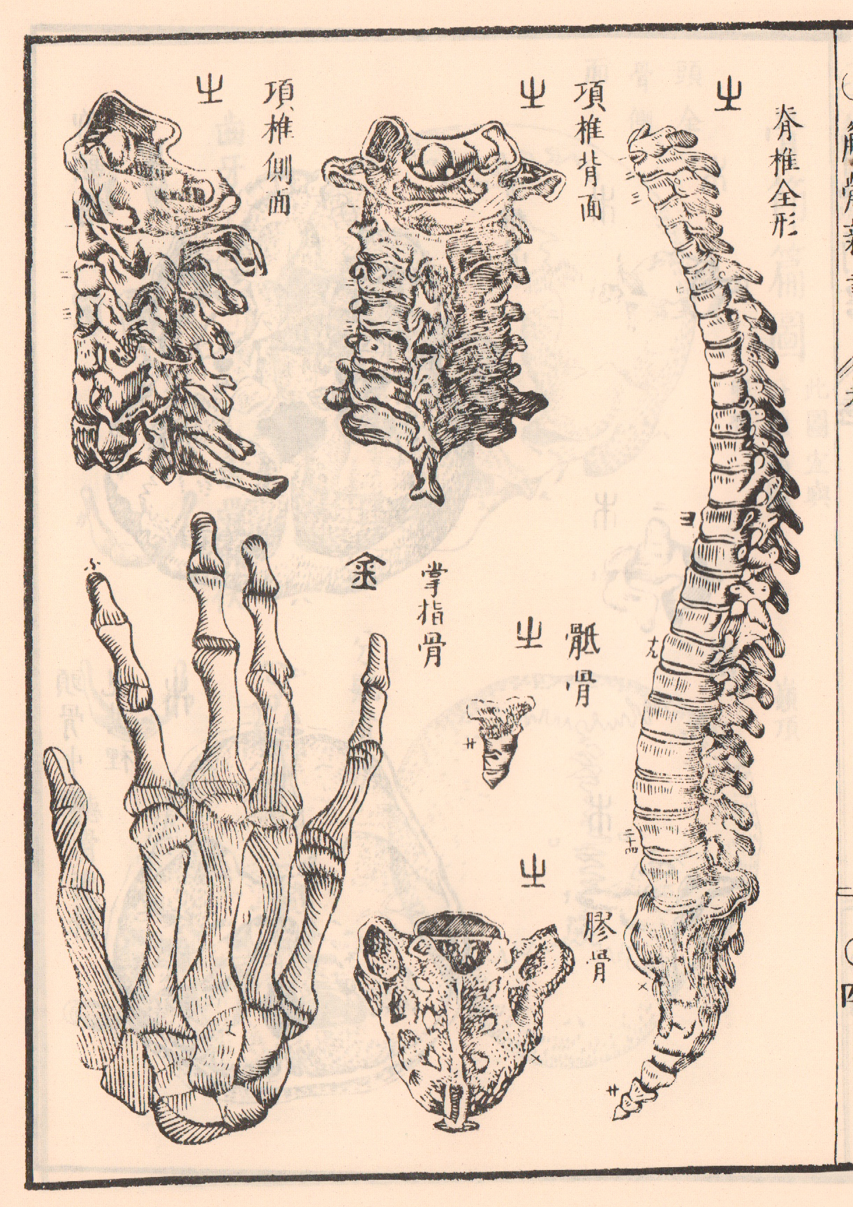 Sugita Genpaku et al.: Kaitai Shinsho, 1774 (illustration taken from Caspar Bartholin)